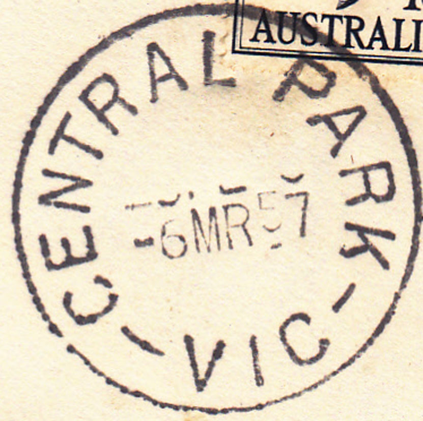 the 1957 postmark of the Central Park post office in Malvern East, Melbourne, Victoria, Australia